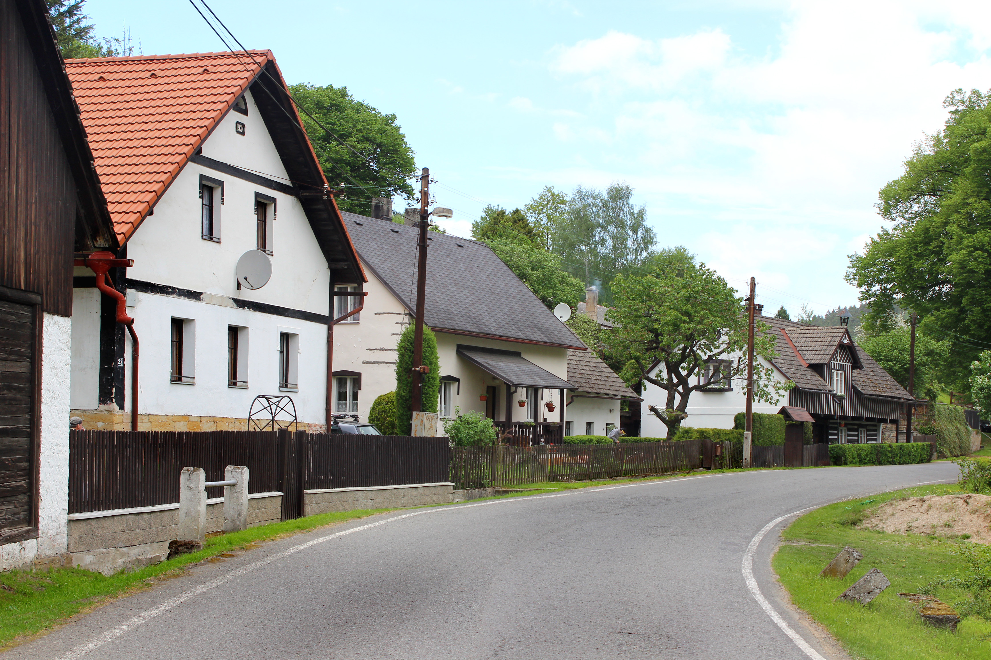 Road No. 259 in Konrádov, part of Blatce municipality, Czech Republic